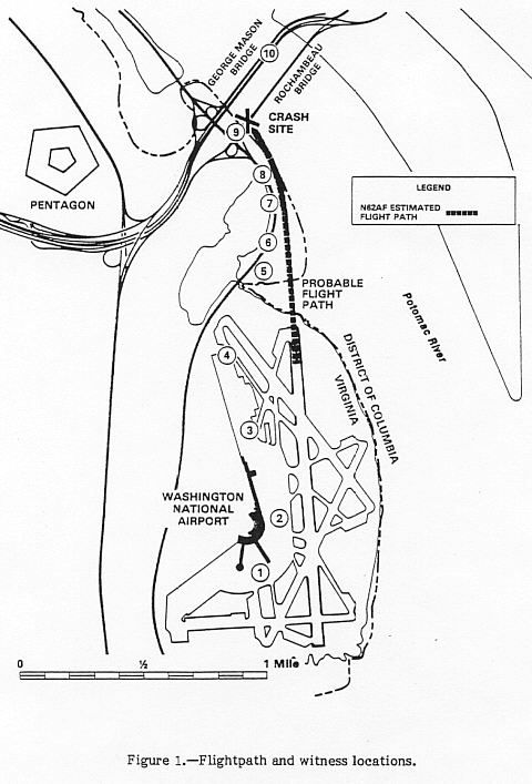 NTSB diagram of Air Florida Flight 90 crash January 13, 1982